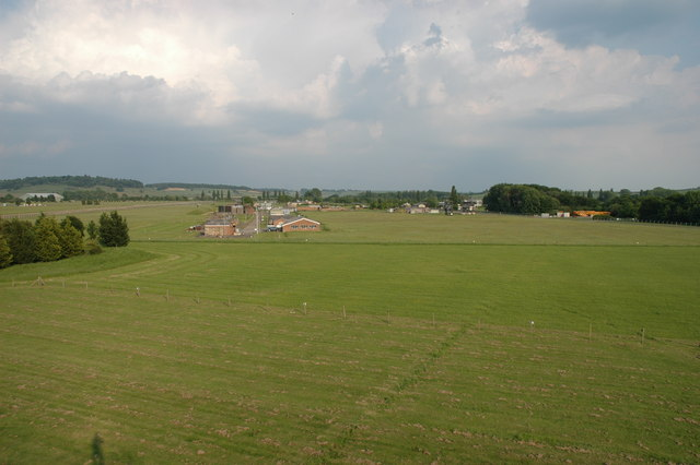 View Across Westcott Venture Park Looking South across Westcott Venture Park